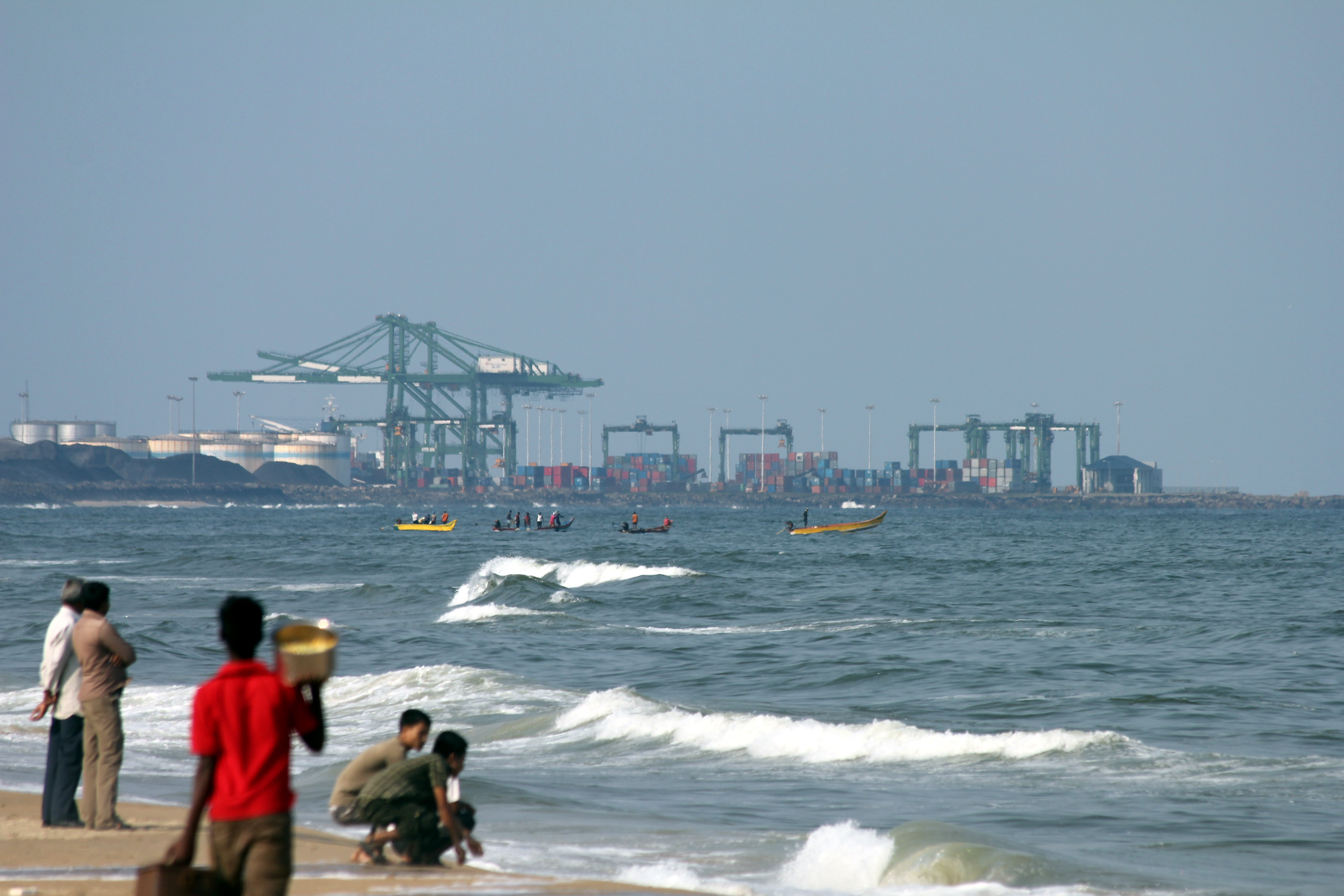 Chennai Port Container terminal viewed from Marina